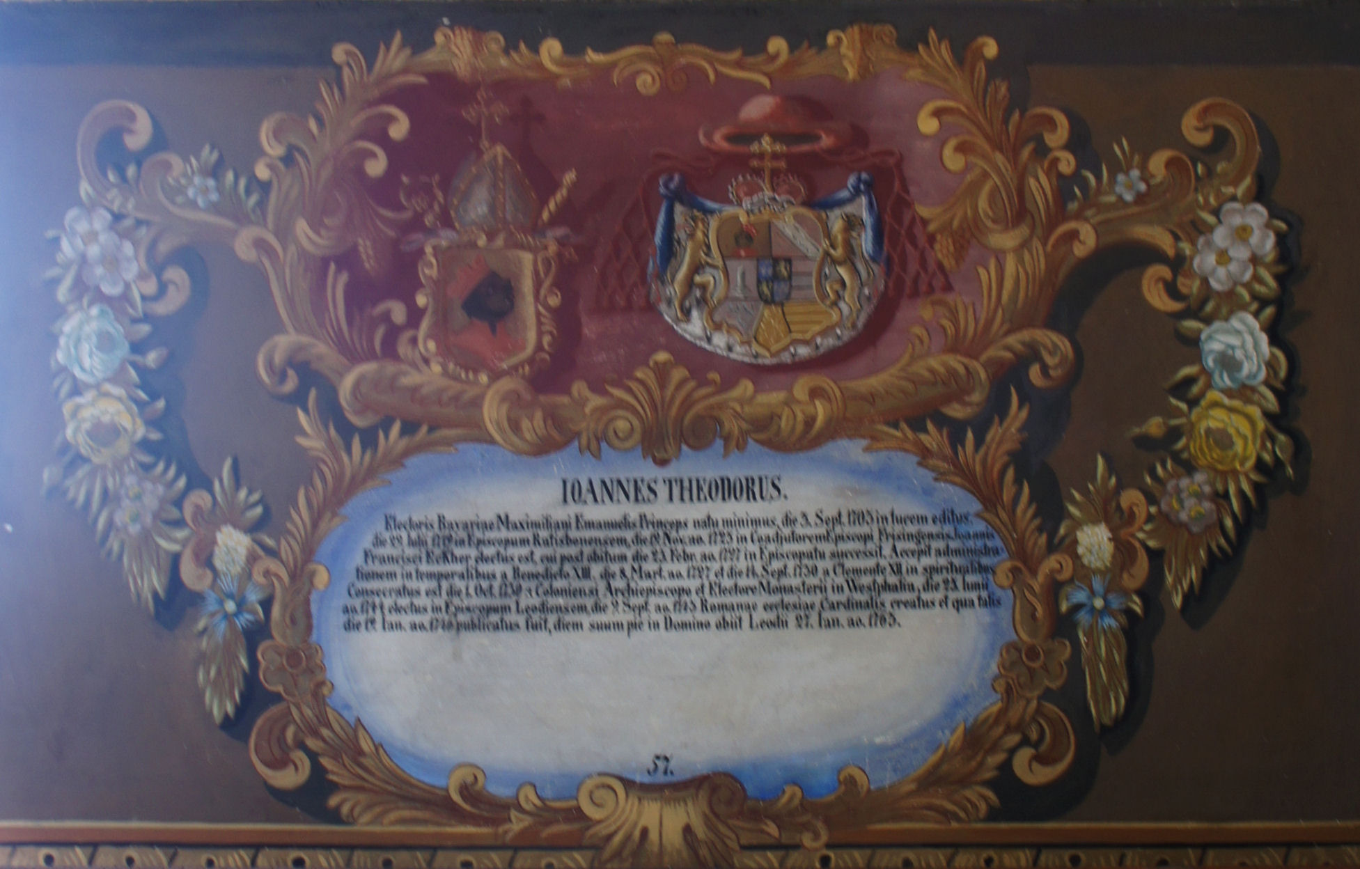 Wappentafel von Kardinal Johann Theodor von Bayern, Fürstbischof von Freising, im Fürstengang zwischen Fürstbischöflicher Residenz und Freisinger Dom. Links das geistliche, rechts das persönliche Wappen, darunter ein lateinischer Text mit kurzer Biographie.